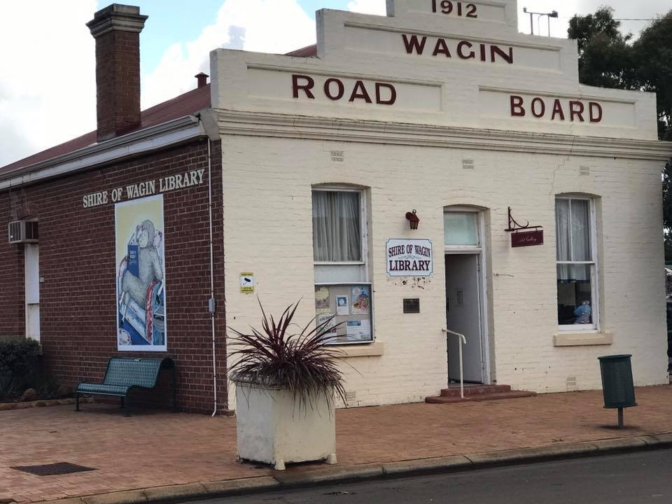 Wagin Library - former Roads Board building